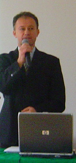 Prof Cezary Taracha (Catholic University of Lublin) polish historian